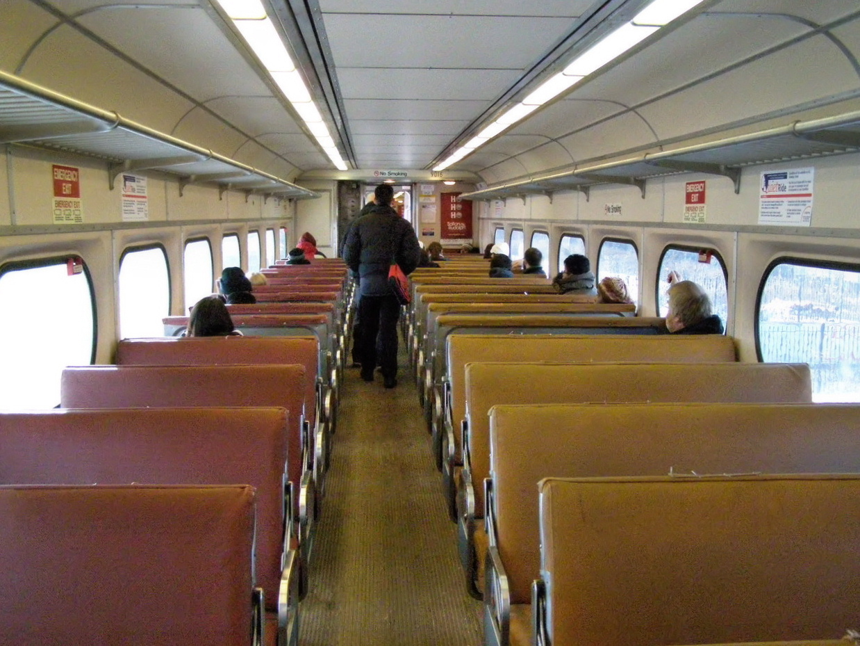 Interior of SEPTA Silverliner II #9016 showing the "Ketchup and Mustard" type decor fitted to most of the Silverliner II and III cars.